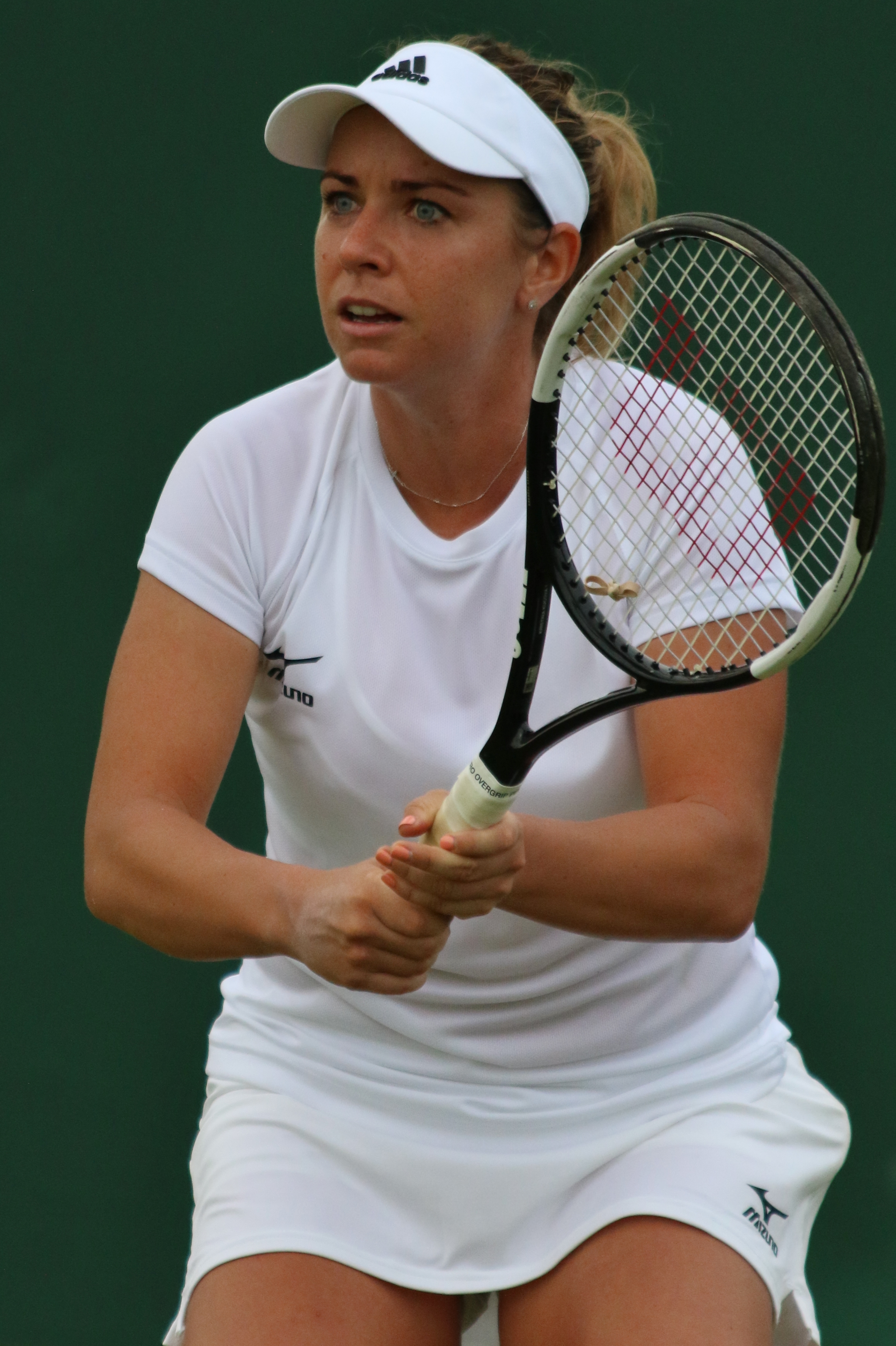 2019 Wimbledon Qualifying Tournament.